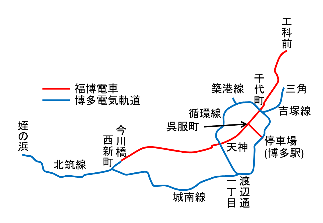 Tramway network in Fukuoka city, Japan, around 1930s. Fukuhaku electric tramway and Hakata electric tramway are color coded.